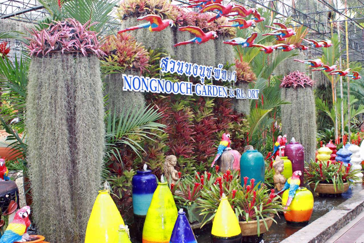 Nong Nooch botanical garden, Pineapple garden, Thailand